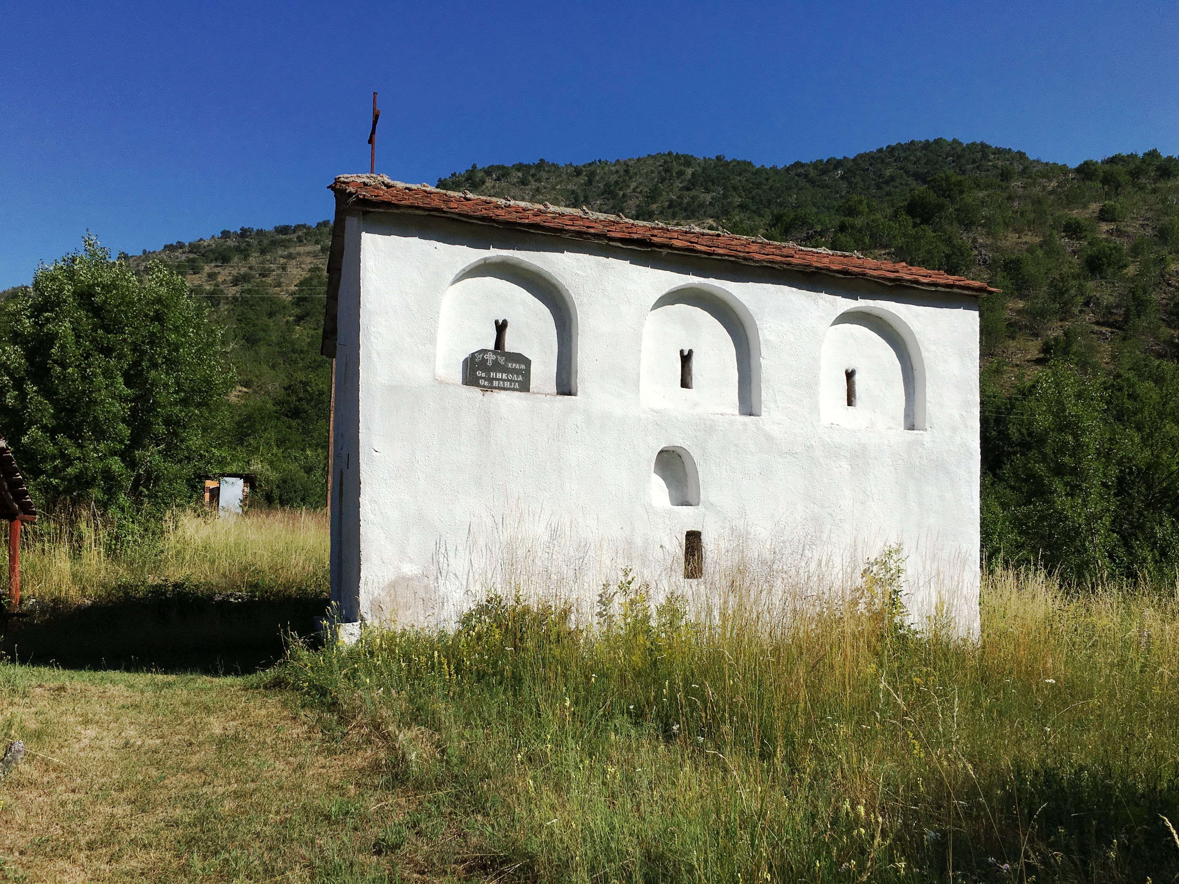 St. Nicholas Church in the settlement of Dolna Belica